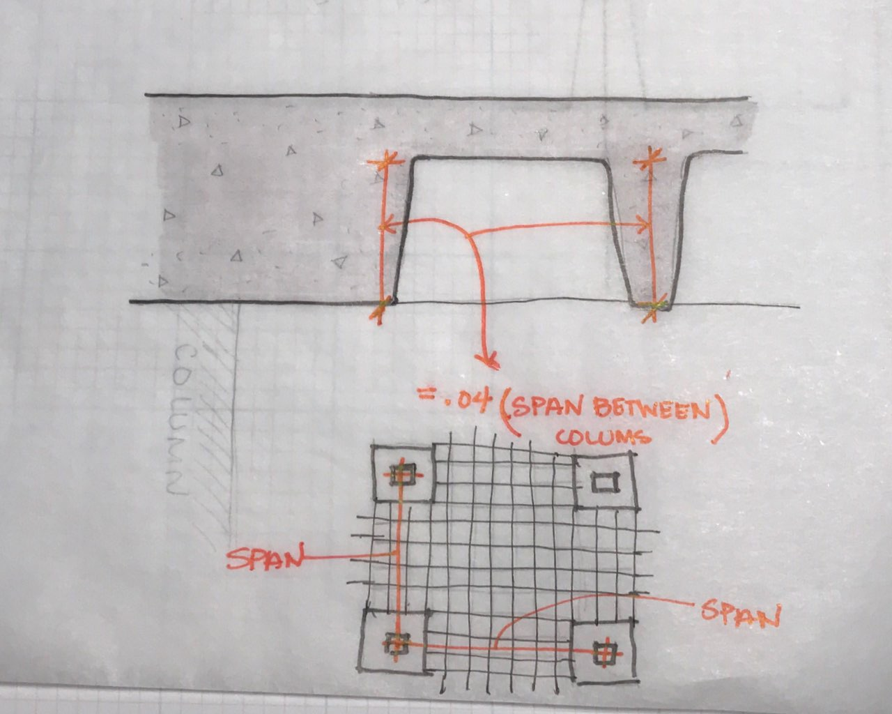 Diagram showing Waffle slab rib and Beam Heights rule of thumb formulas.